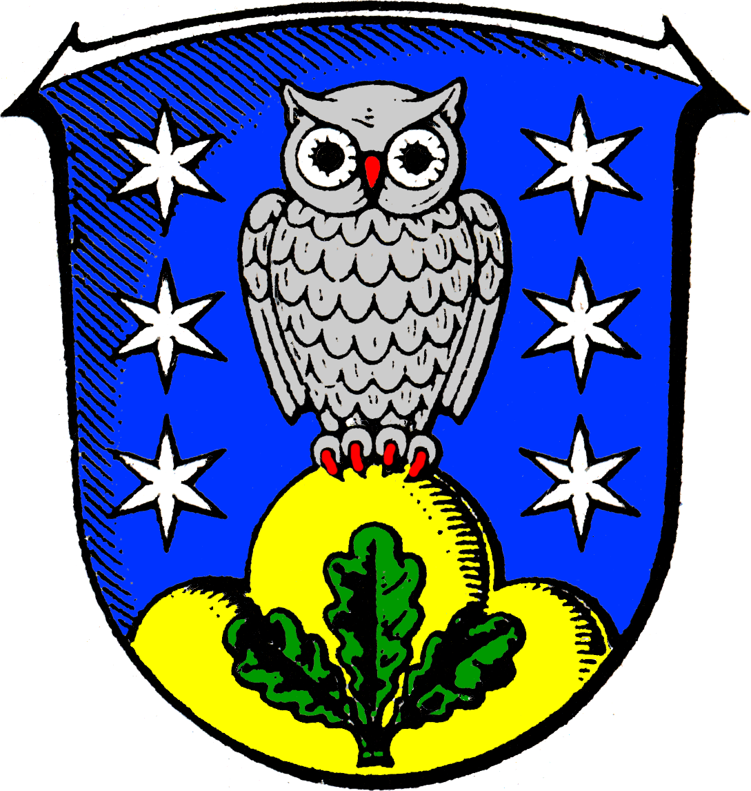 Coat of Arms of Oberaula